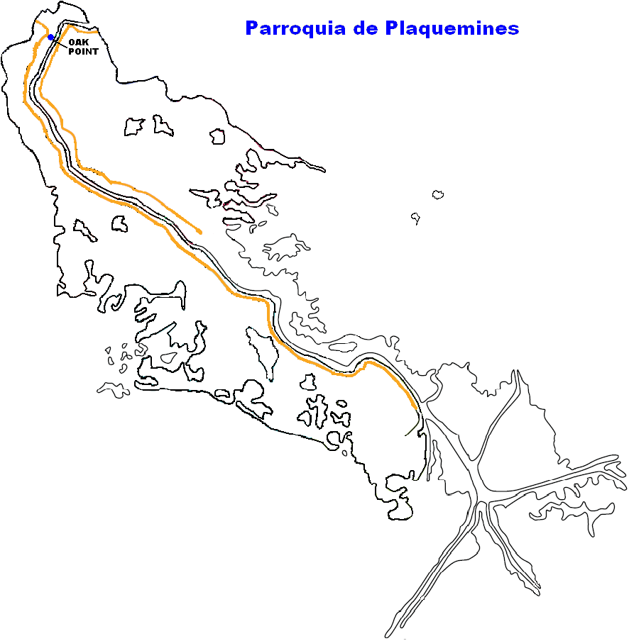 Oak Point, Louisiana.